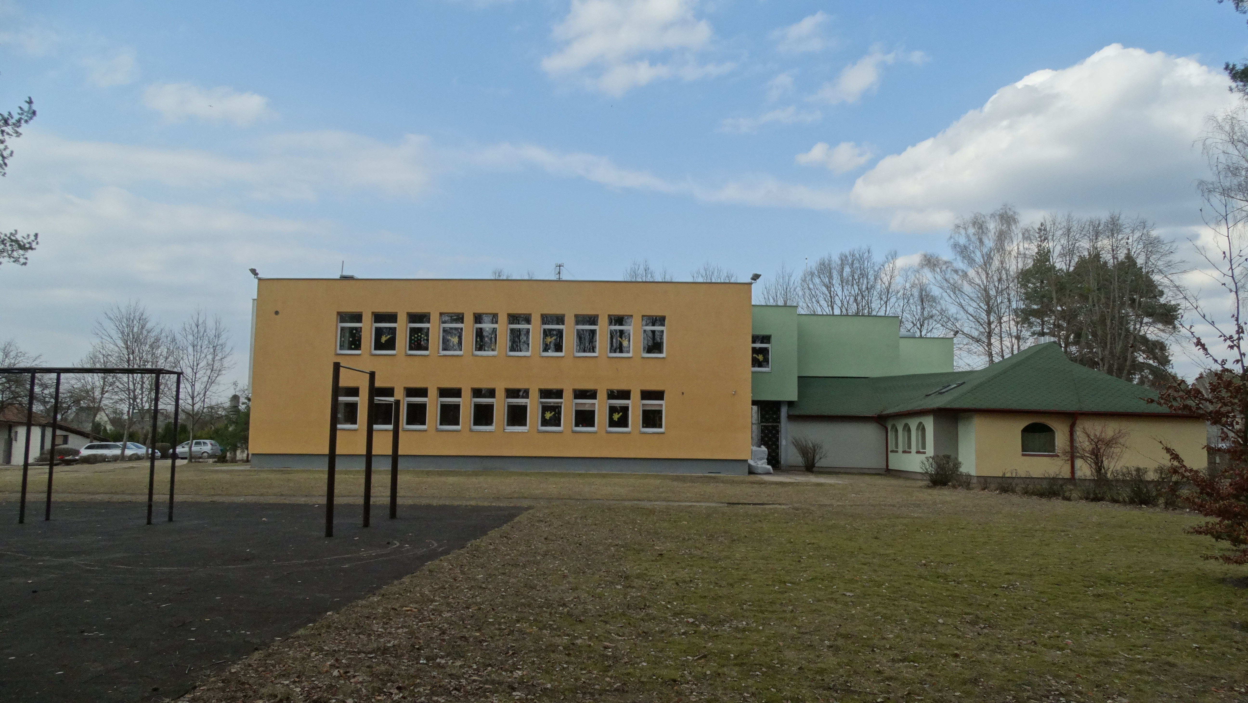 Elma school, Kazlų Rūda, Lithuania